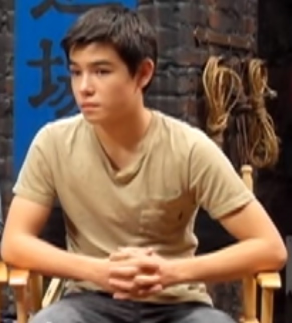 Ryan Potter, Gracie Dzienny and Carlos Knight from Nickelodeon's Supah Ninjas tell LA Teen Festival about their own real life martial art skills. You can read the entire interview at in issue #13.